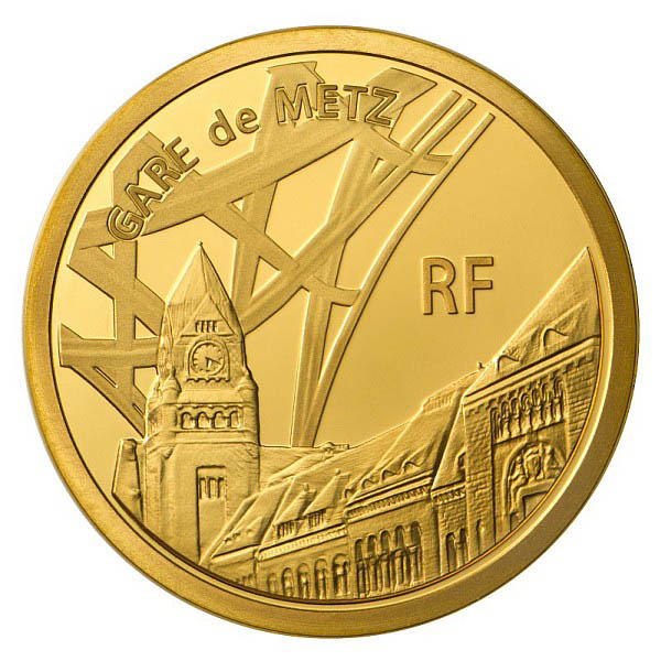 Face Gare Metz 2011